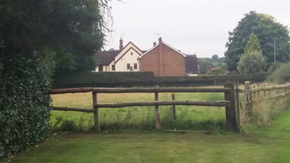 My own.